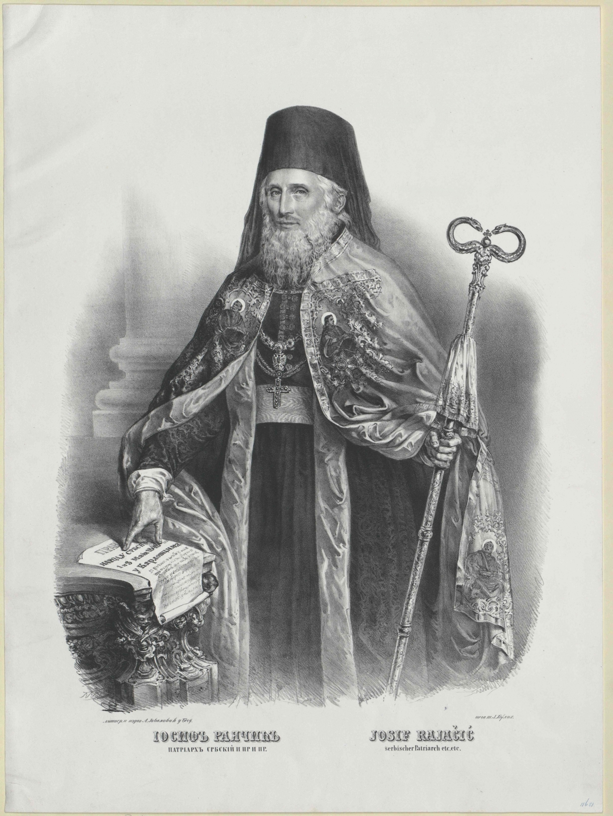 Rajacic-Brinski, Josef Freiherr (1785 - 1861)